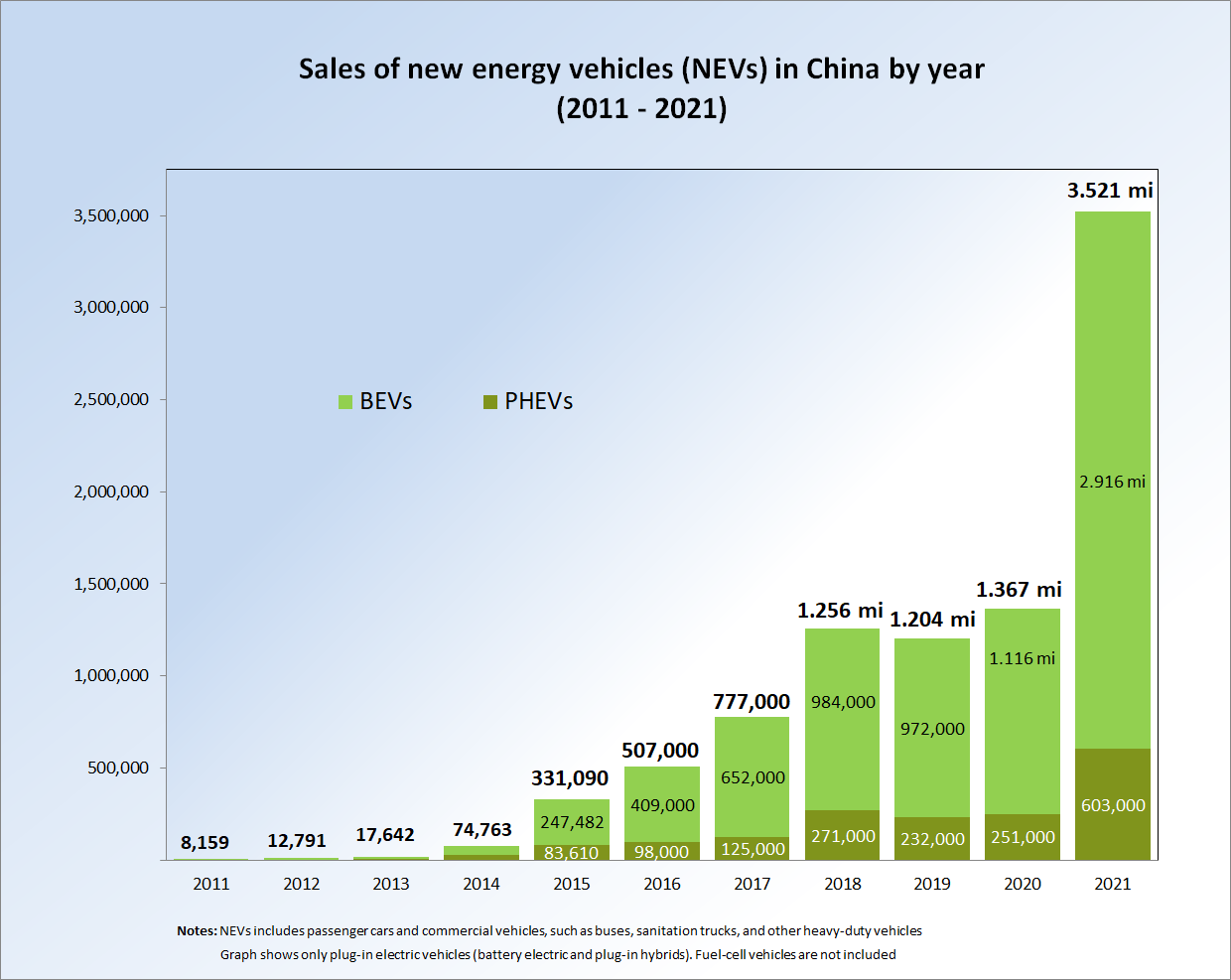 Evolution of annual sales of new energy vehicles (plug-in electric vehicles) in China from 2011 to 2019. Includes passenger cars and heavy-duty commercial vehicles. Source: China Association of Automobile Manufacturers. CAAM sales figures only account for domestically built vehicles.Annual figures available here: 2019 (Fuel cell vehicles not included) 2018 2017 2016 2015 2014 2013 2012 2011.